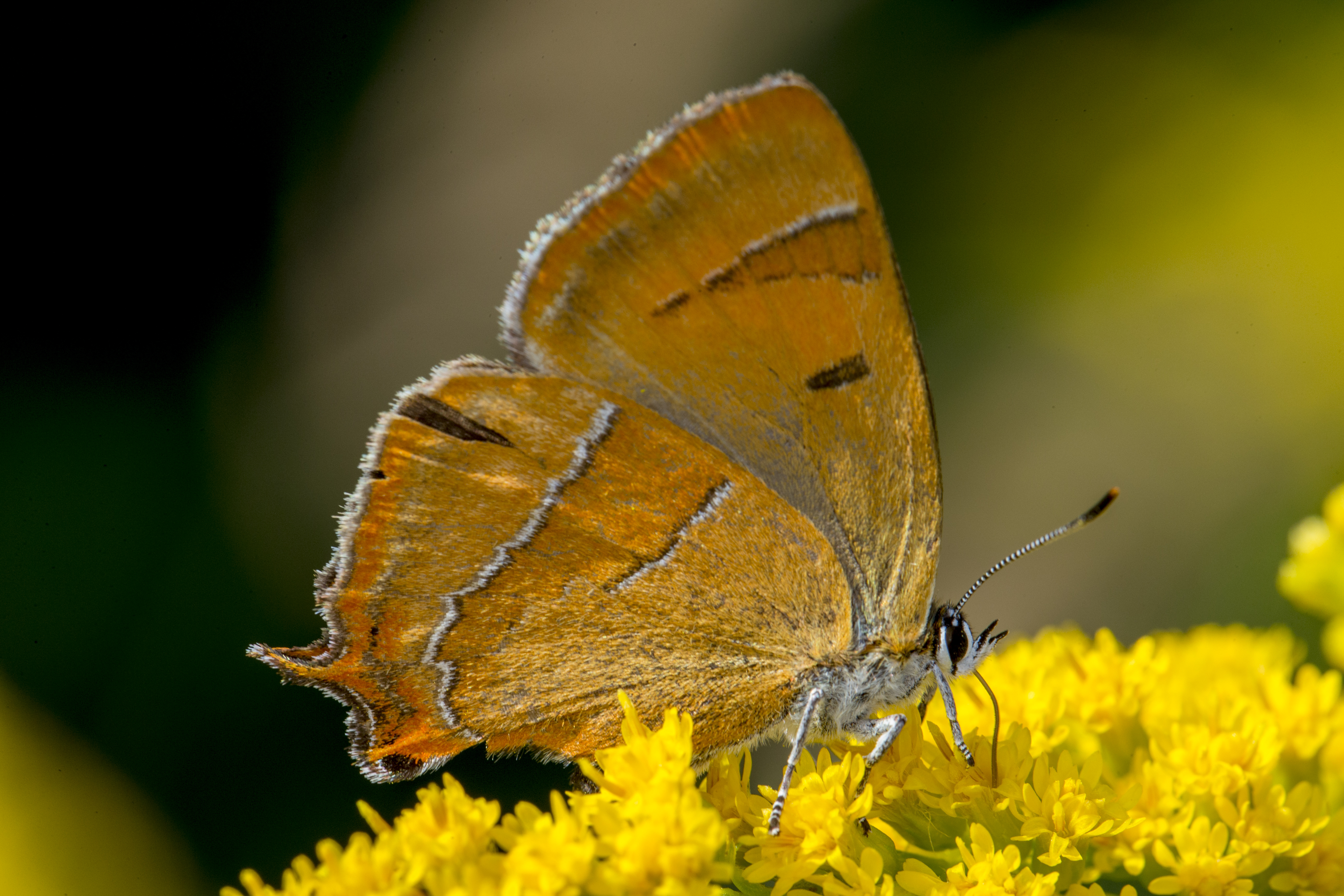 The Brown Hairstreak, Lodz(Poland)